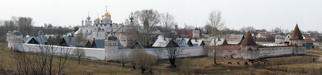 Pokrovskij monastery in Suzdal